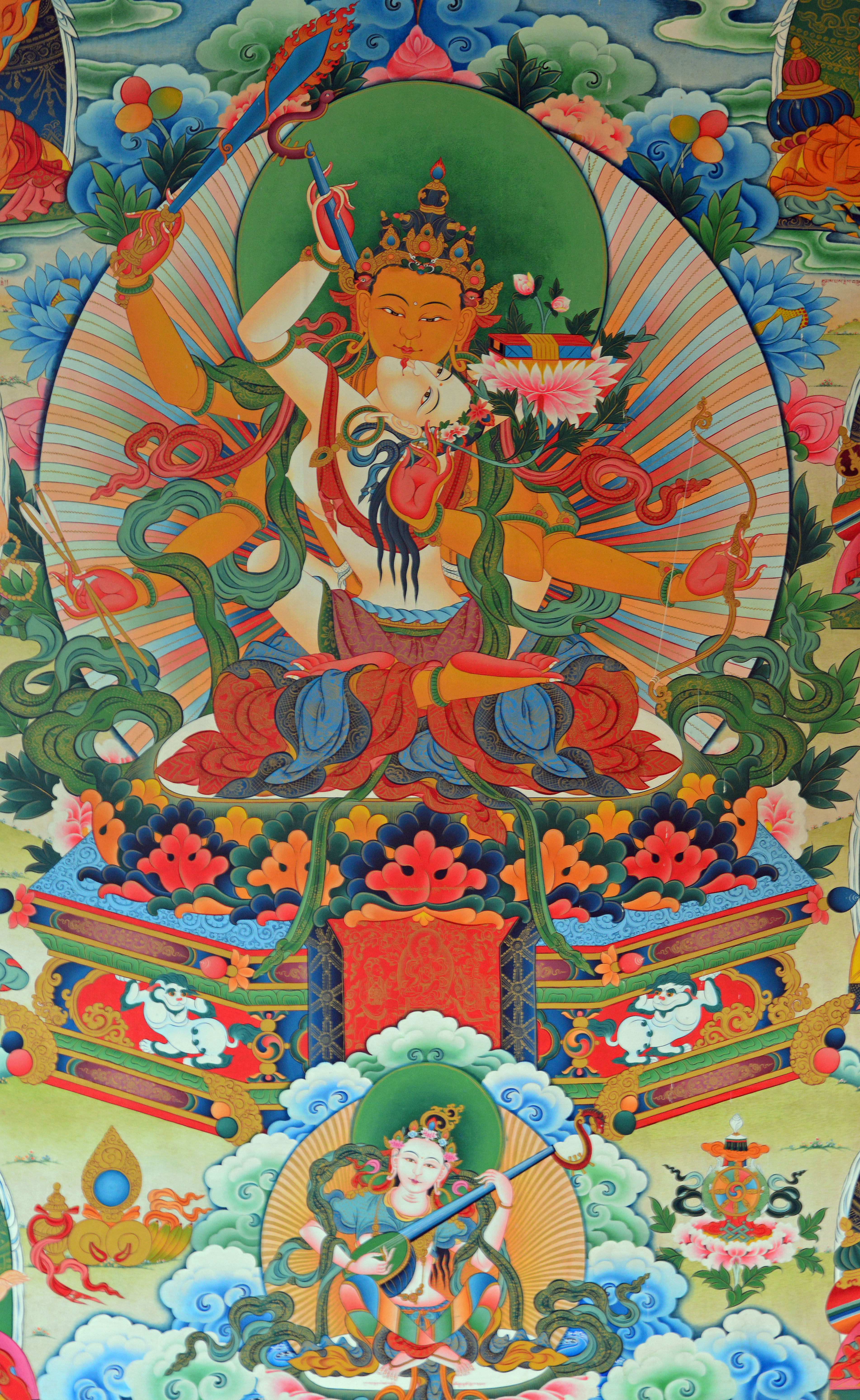 Mural of Manjusri and Sarasvati in Padmasambhava Buddhist Vihara at Namdroling Monastery